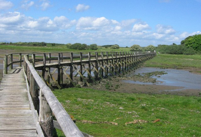 Tidal inlet, Aberlady Bay